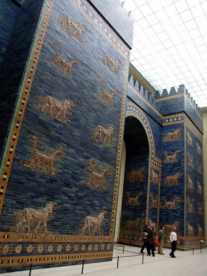 Reconstruction of the Ishtar Gate. Pergamonmuseum (Berlin)